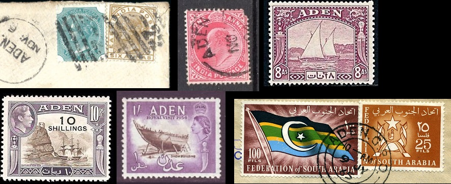 From its conquest by the British in 1839 up to 1937, British Aden was a dependency of India and consequently postage stamps from India were used. Only the postmark (either "Aden", "124" or "B-22") would indicate that the postal item had been posted in Aden. Dedicated stamps for Aden needed to be issued when Aden was separated from India in 1937 to become a Crown Colony ruled from London. Normally, crown colony stamps would bear the effigy of the ruling monarch but when the new stamps were prepared in 1936, the so-called abdication crisis was unfolding. Not quite sure if Edward VIII would still be king when the stamps were printed, the postal authorities played it safe and designed a stamp without any royal portrait, which was issued 1 April 1937. A new regular issue bearing the effigy of George VI was issued in 1939. The Indian rupee continued to be the currency of Aden. In 1951, following India's independence in 1947, Aden's regular issue denominated in Indian rupees was overprinted with East African shillings and cents. A new regular issue denominated in East African shillings was issued following the creation of the short-lived Federation of South Arabia in 1963. In 1965, this currency was replaced by the South Arabia (later South Yemen) dinar (1 dinar = 1000 fils).